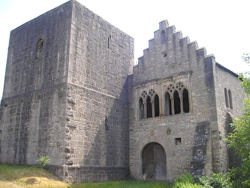 Salzburg castle near Bad Neustadt (Landkreis Rhön-Grabfeld, Lower Franconia, Germany). The "Münz" (Mint) and one of the two keeps